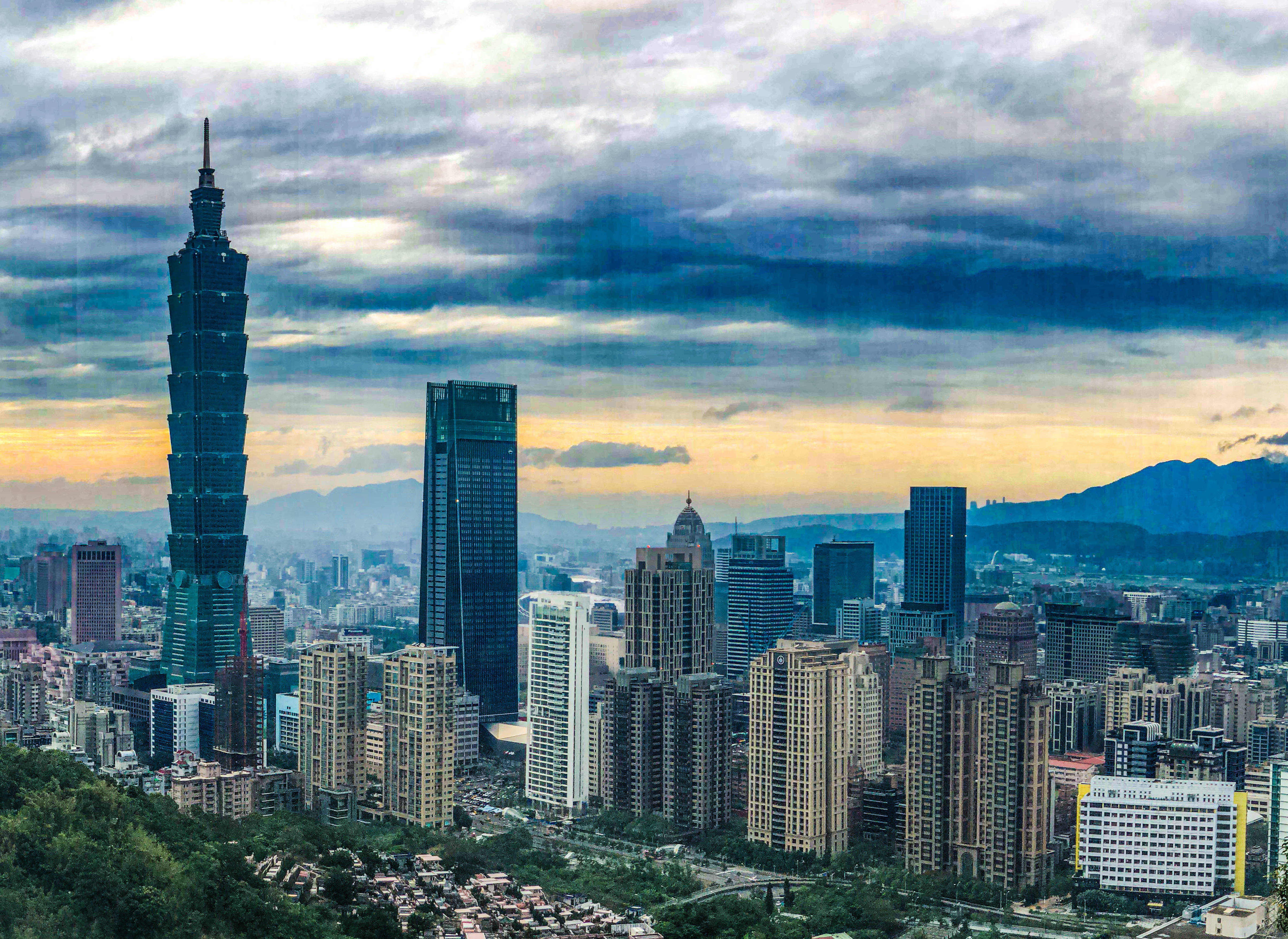 Panoramic view of Taipei, Taiwan Skyline from Xiangshan photographed in January 2018